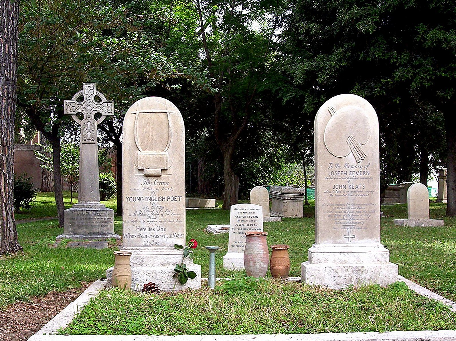 Protestant cemetery, Rome. The graves of the English poet John Keats (1795-1821) e his friend, painter Joseph Severn (1793-1879). By